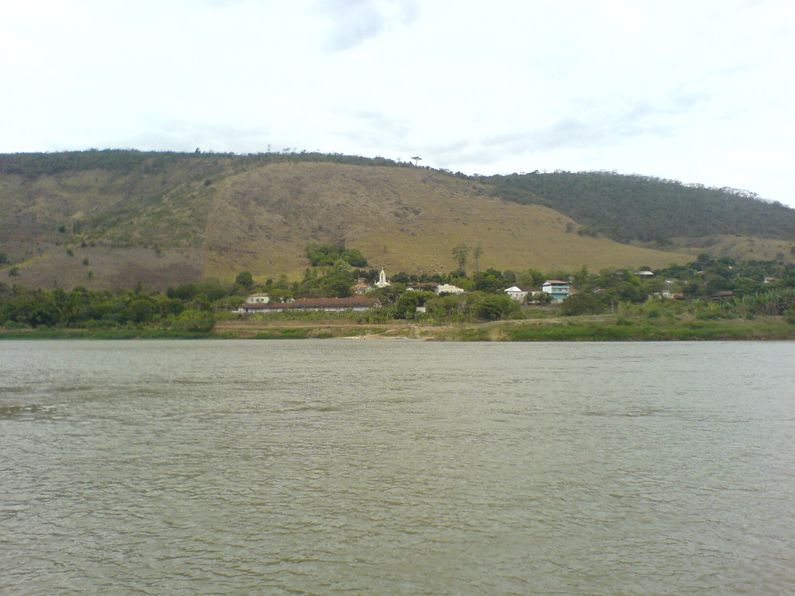 A view of the village of Itapina, Espirito Santo, Brasil, from River Doce